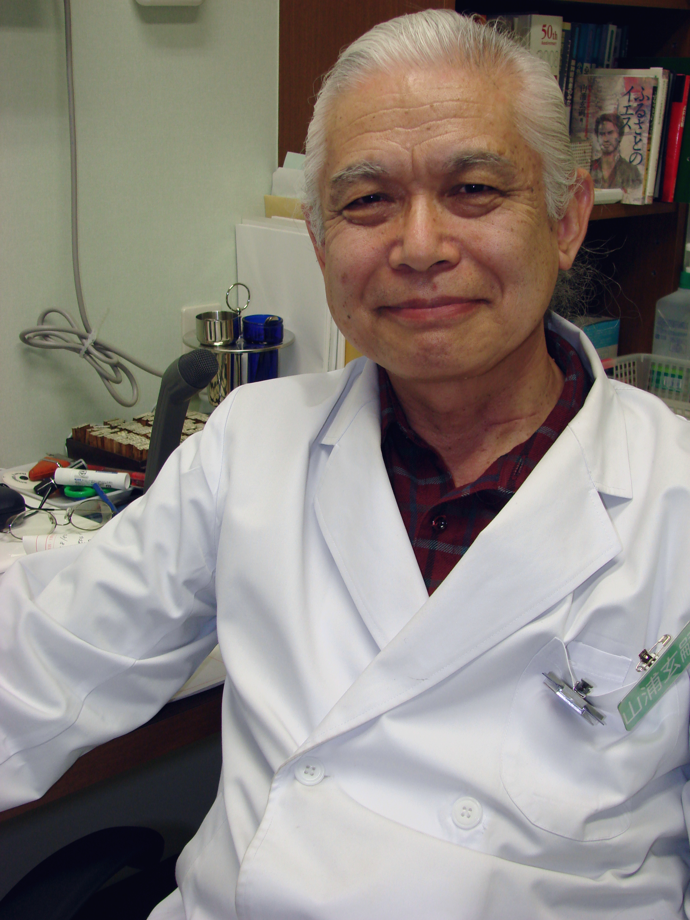 Harutsugu Yamaura poses for a photo for the Kesen Dialect Wikipedia page.